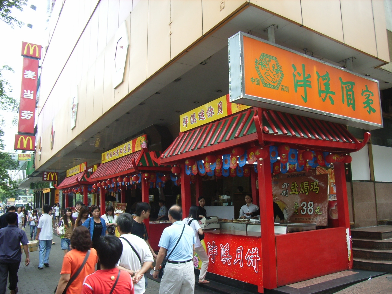 深圳地鐵 沿線各站風景Shenzhen, China (Author is SAMZ).